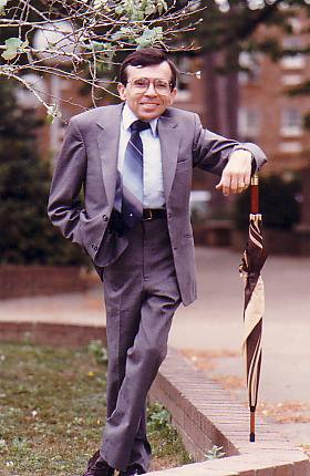 Robert Provan on Stephen F. Austin State University campus